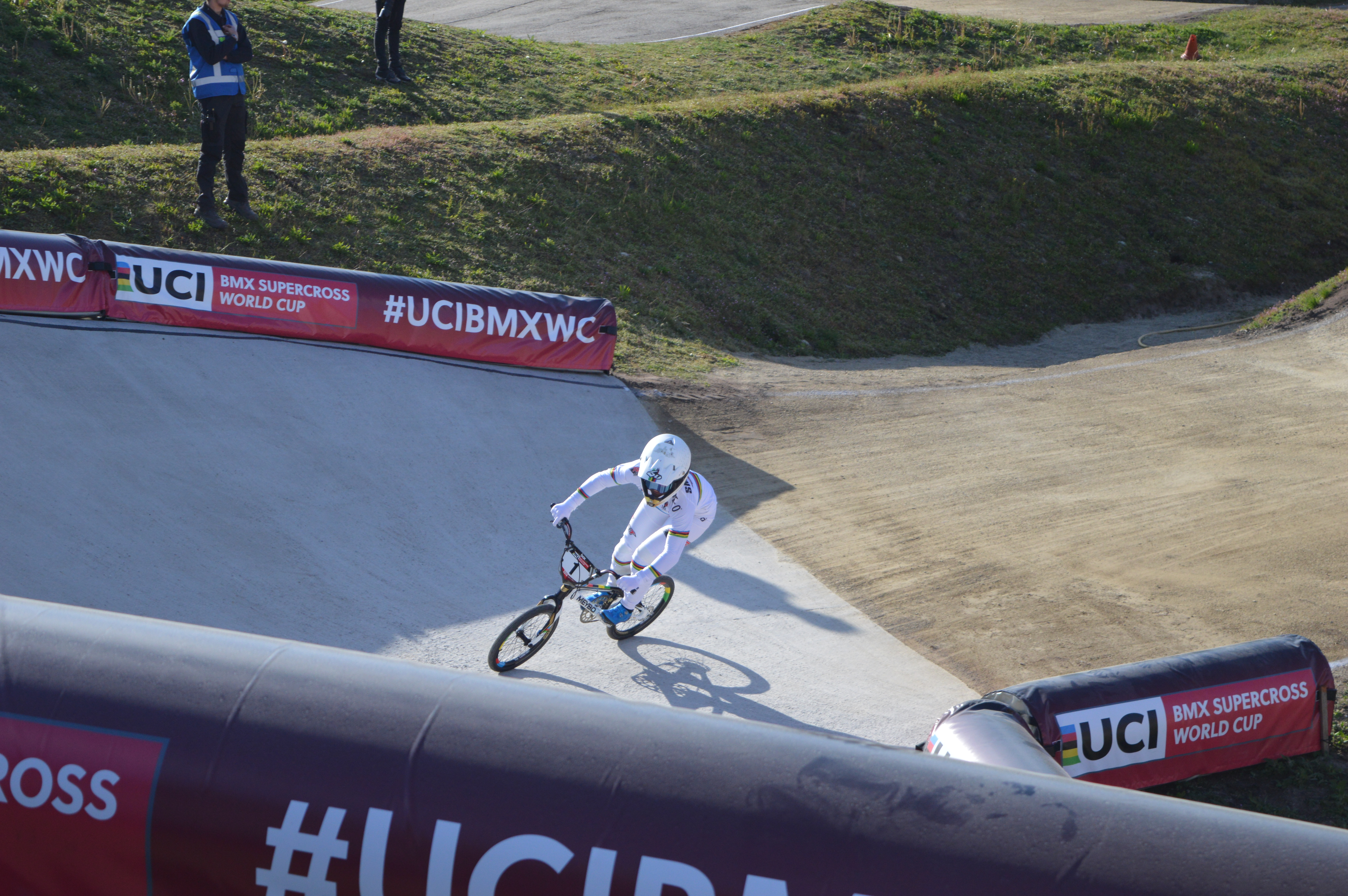 Photo is taken during the World Cup BMX 2019 in Papendal, The Netherlands.